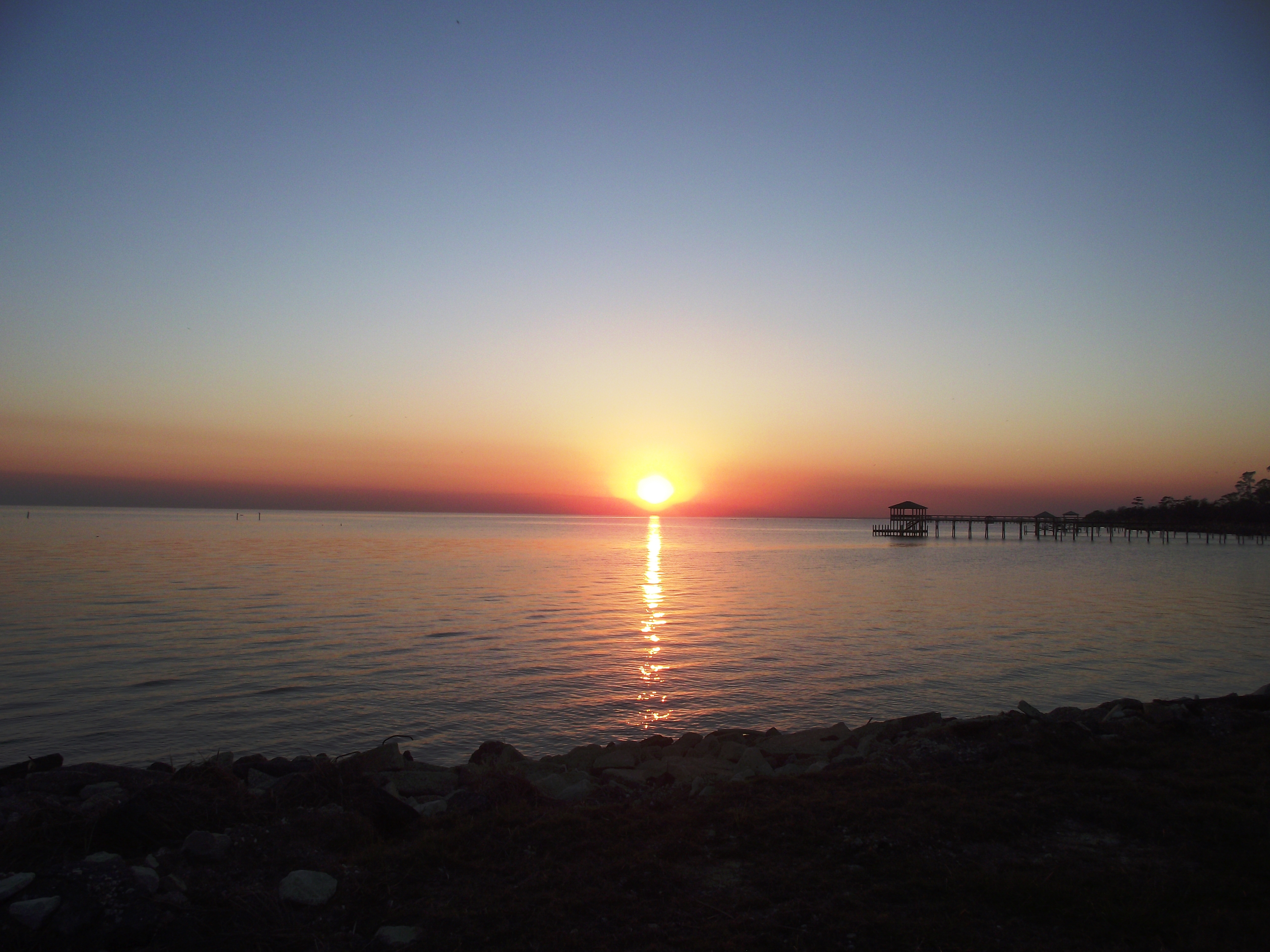 Sunset over Lake Pontchatrain from the southbound causeway entrance